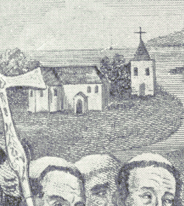 Section of 16th Century painting from Chichester Cathedral showing Selsey Church